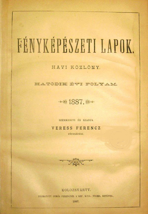 Fényképészeti Lapok (Photo Magazine) edited by Ferenc Veress in Kolozscvár between 1882-1888.